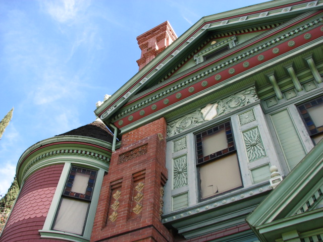 Close-up photo of front facade's left side on the Hale House — at Heritage Square Museum, north-central Los Angeles, California. The Victorian Queen Anne style house was located in the nearby Highland Park district for 85 years (1885 - 1970). The Hale House is a Los Angeles Historic-Cultural Monument, and on the National Register of Historic Places. Located since 1970 at the open air Heritage Square Museum (with 7 other historic buildings), in the Arroyo Seco (3800 Homer Street), Los Angeles.